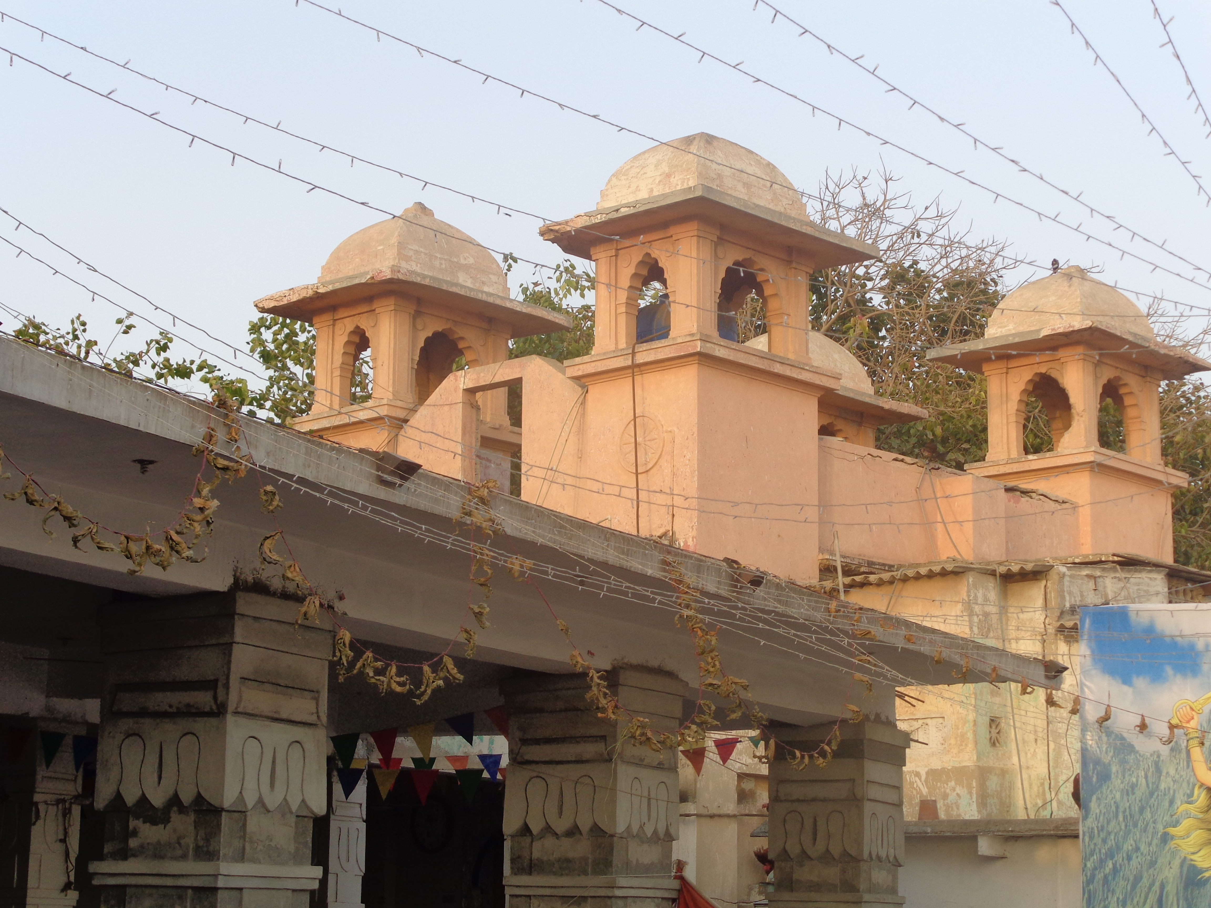 Shri Laxmi Narayan Mandir This is a photo of a monument in Pakistan identified as the SD-P-28